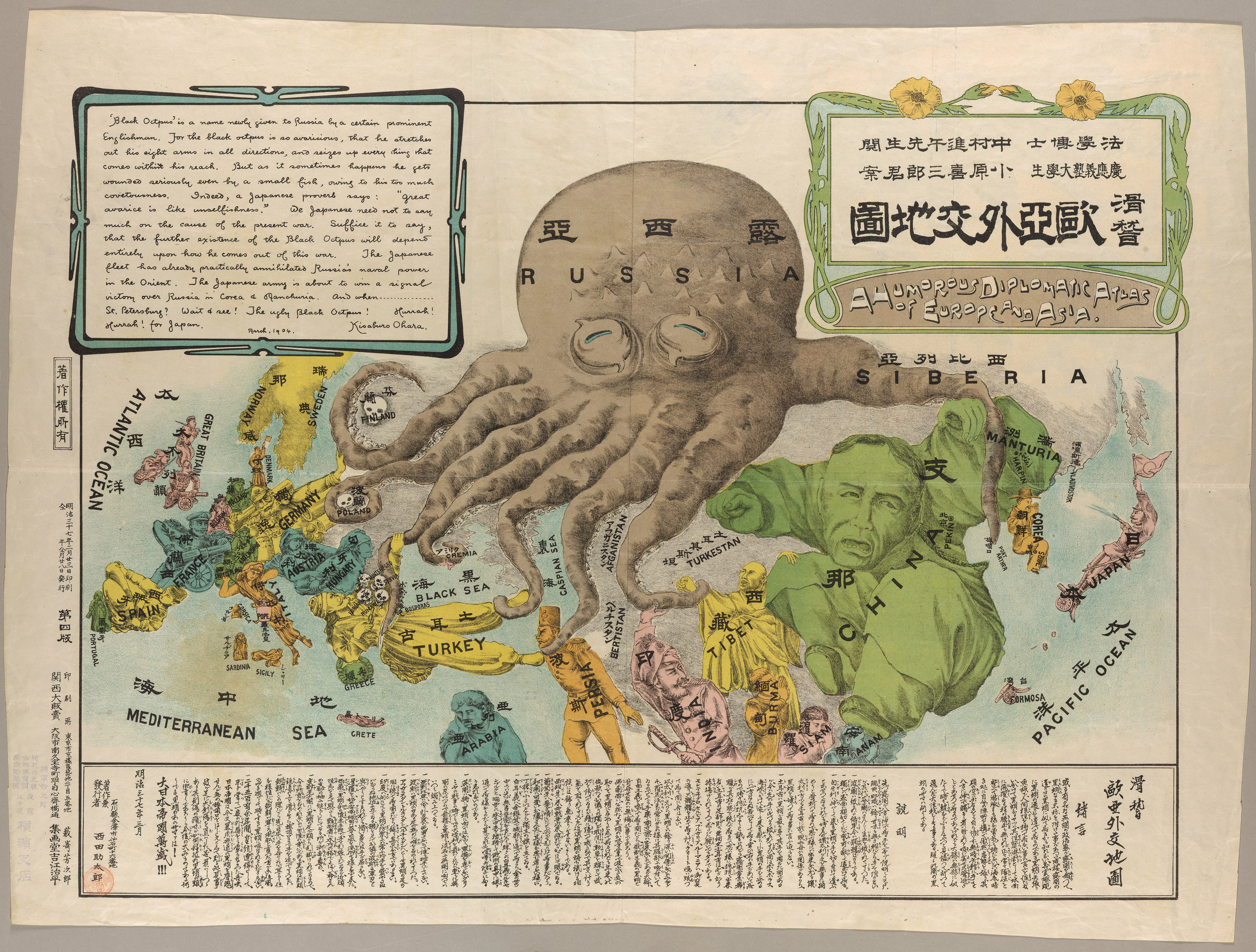 An anti-Russian satirical map produced by a Japanese student at Keio University during the Russo-Japanese War. Manturia / China / Tibet / Turkestan / Formosa